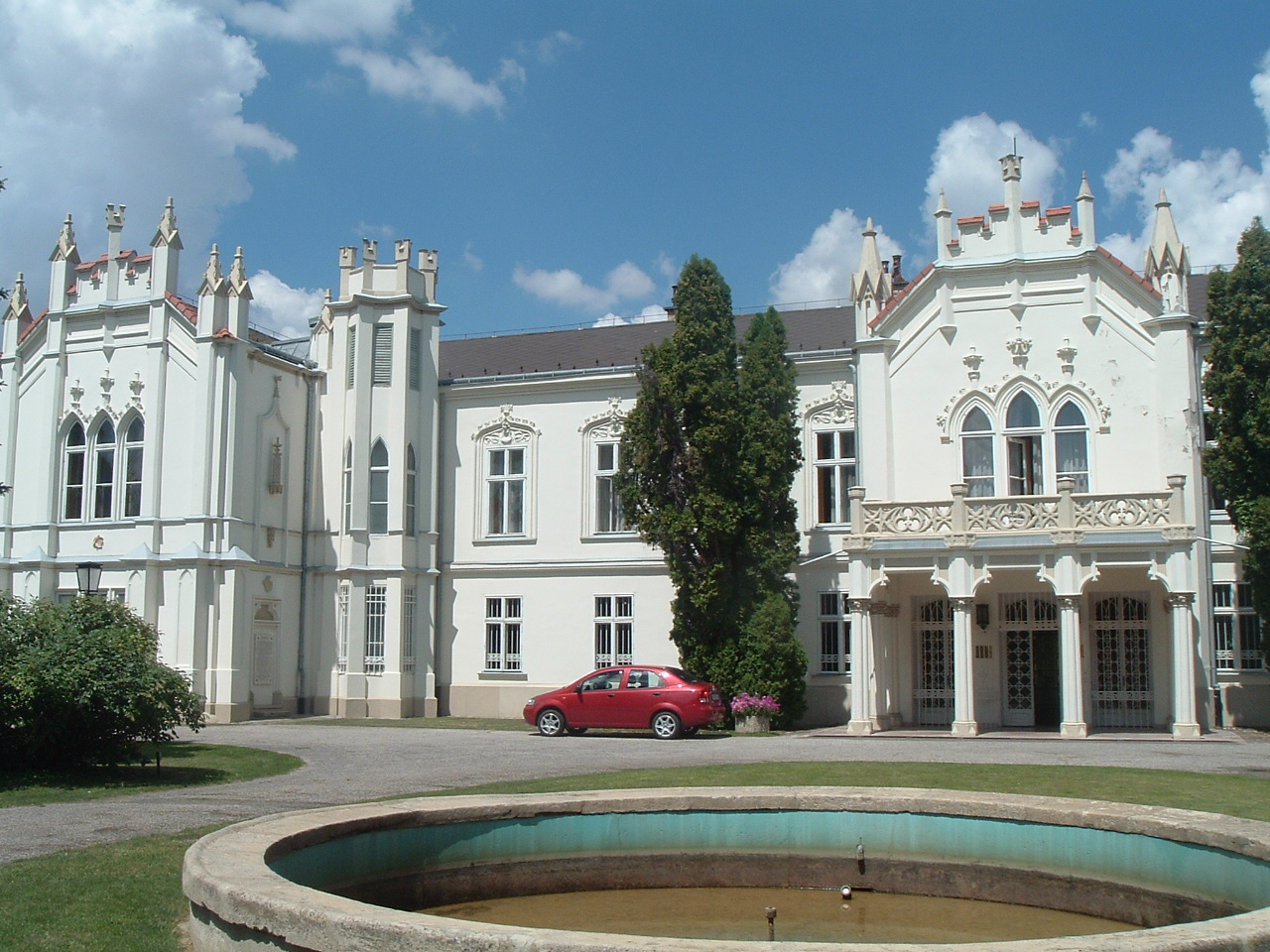 The Brunswick-mansion in Martonvásár